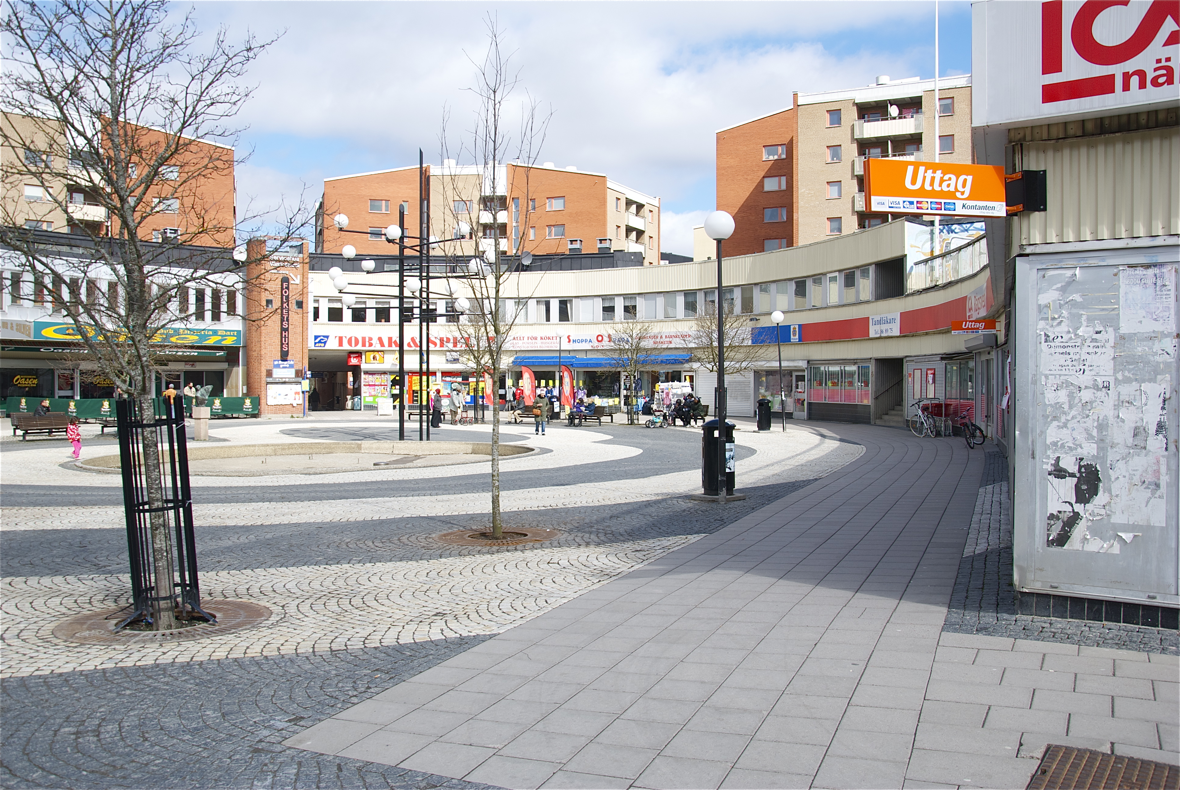 Rågsved centre. Rågsved is a suburb in the south of Stockholm, Sweden. Built in the 1950s.